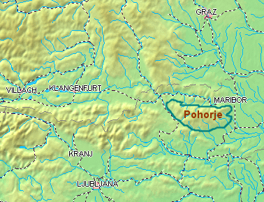 Own Work after Demis Map